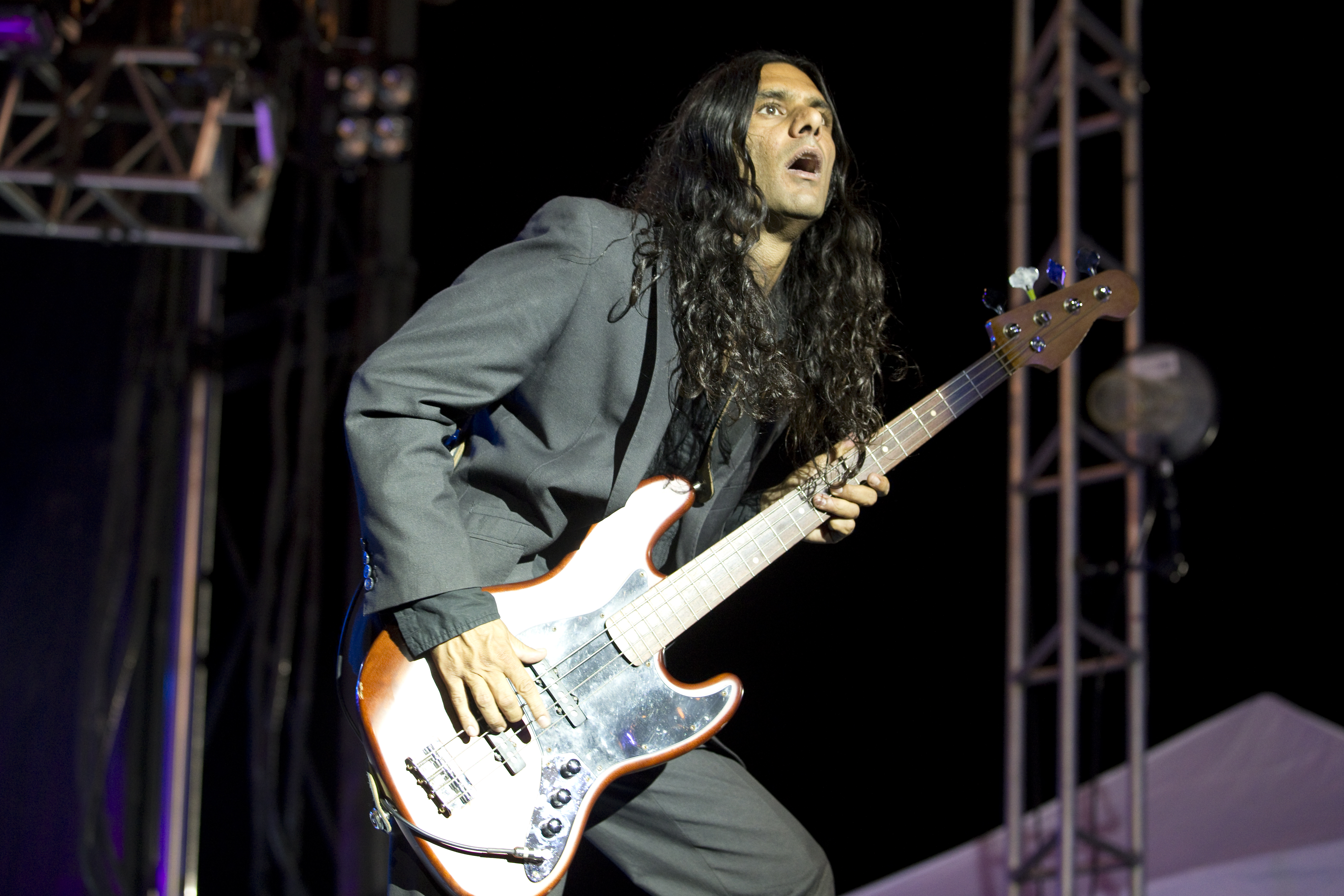 C34P9543